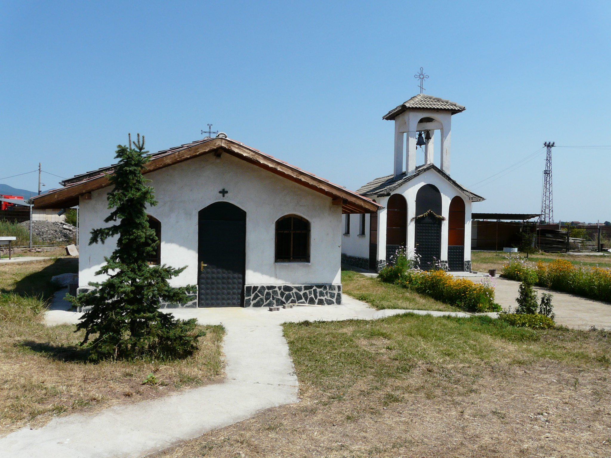 Chapels of the Dormition and the Nativity of the Virgin Mary in Negovan, Bulgaria